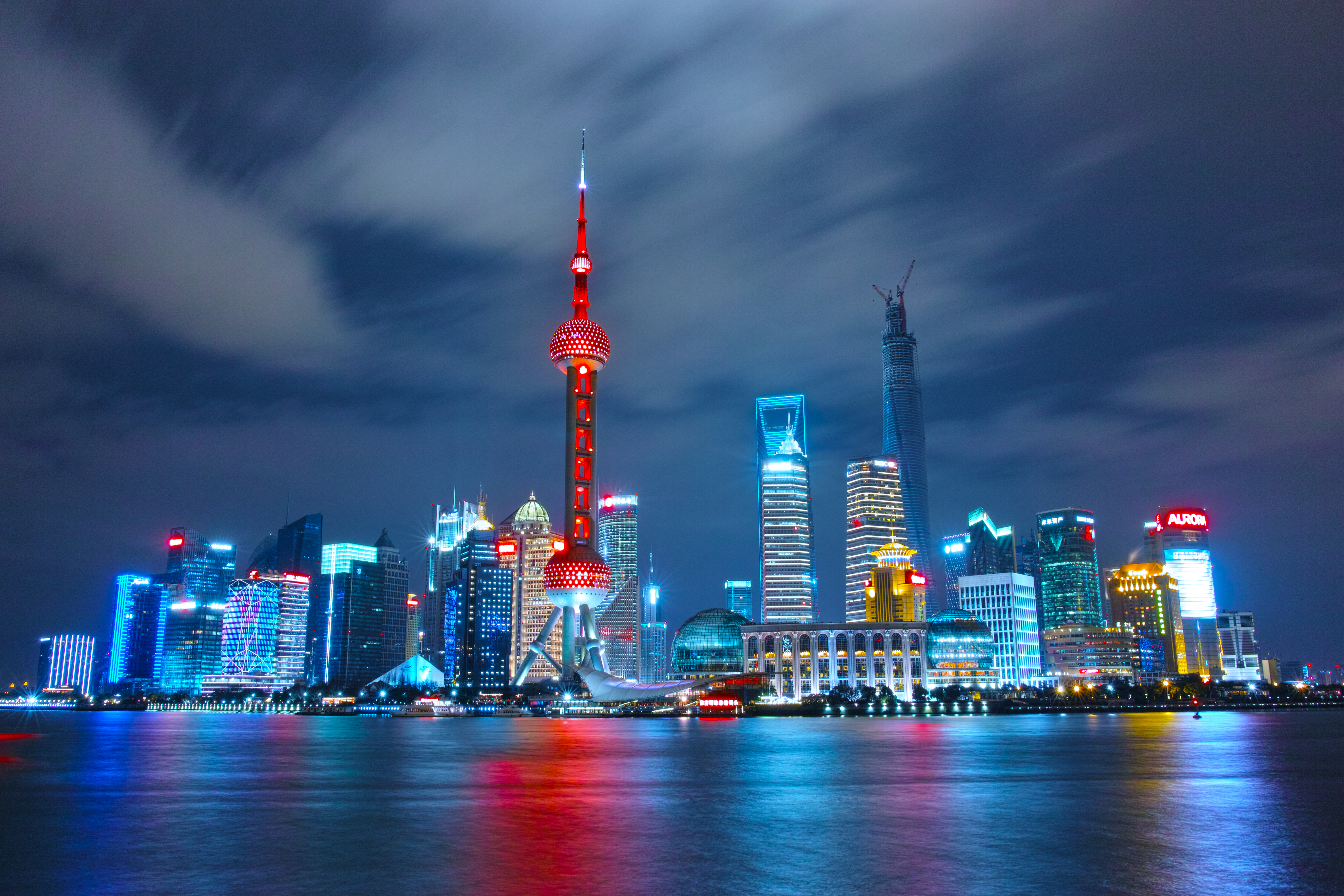 Wai Tan, Shanghai, China